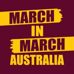 March in March Australia branding.